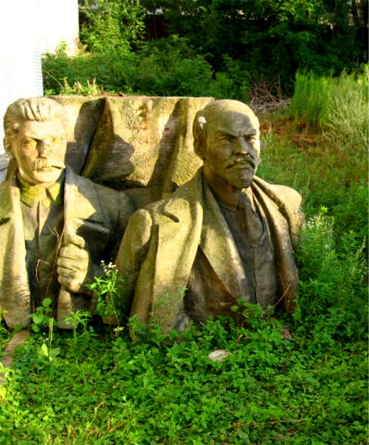 Part od Stalin and Lenin Monument by Rudolf Doležal and Vojtěch Hořínek in Olomouc, Czech Republic